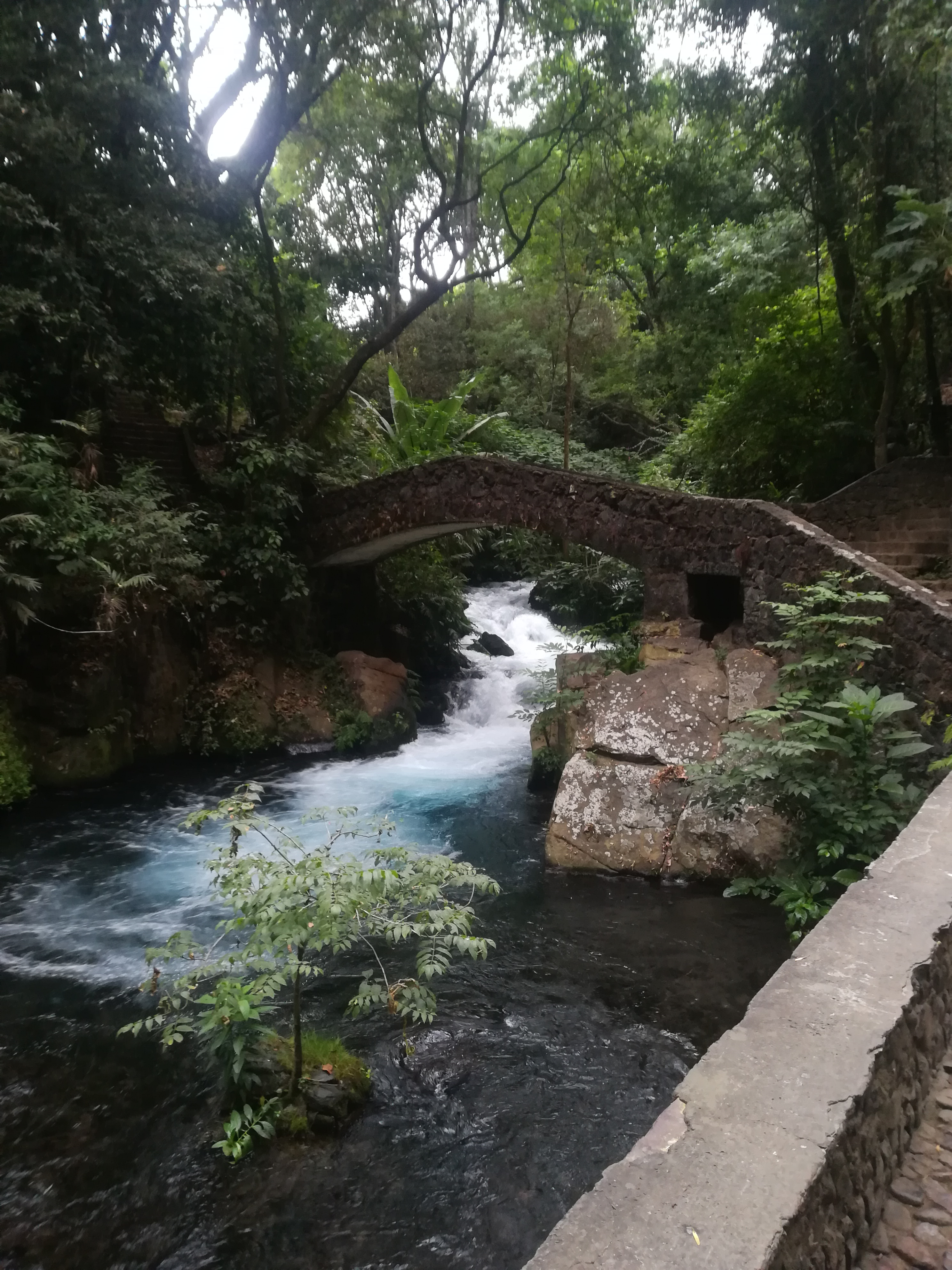 National Park Waterfall, Uruapan City, Mexico